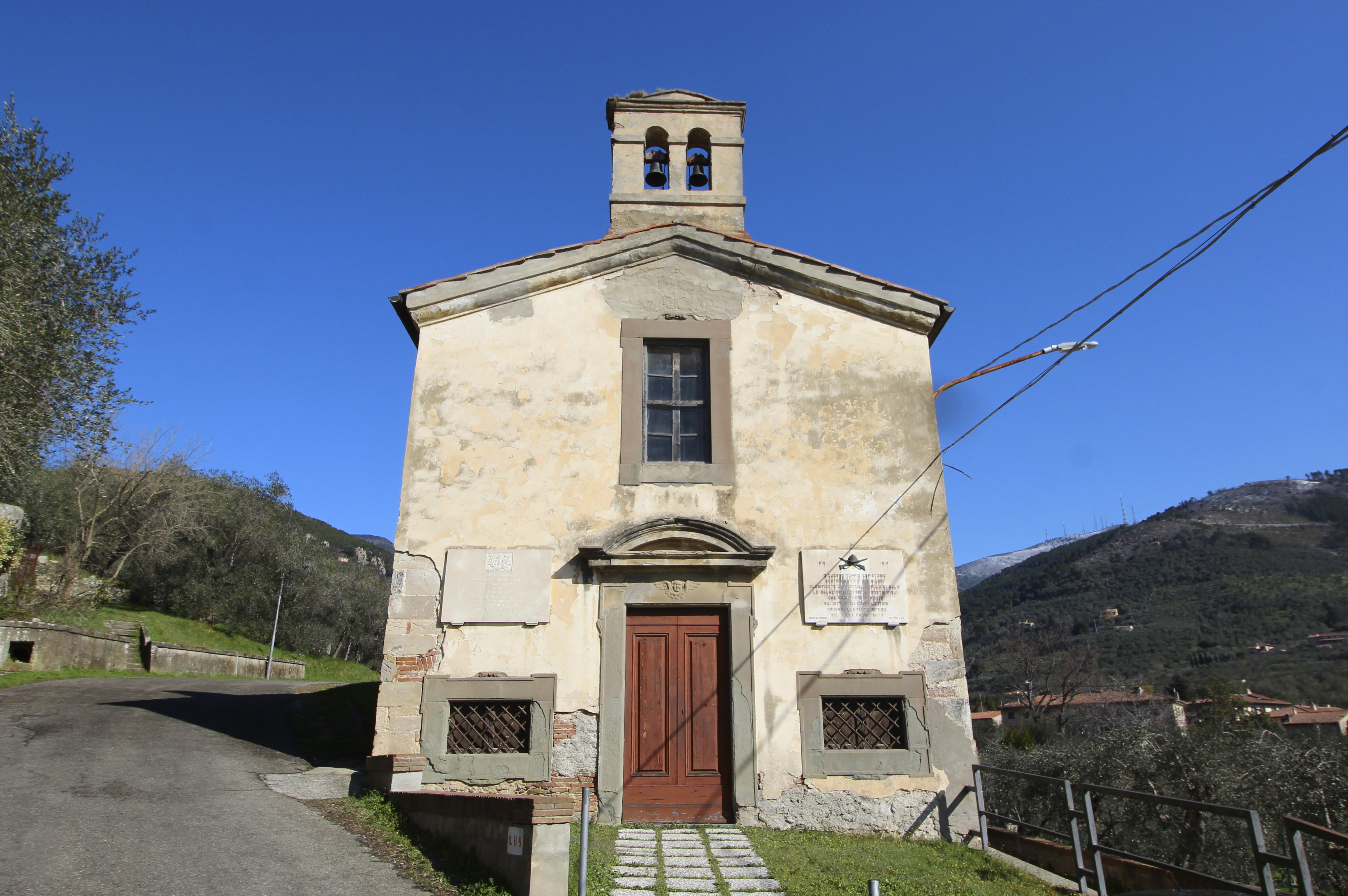 Church/Chapel San Rocco, Colle (Colle-Villa), hamlet of Calci, Province of Pisa, Tuscany, Italy